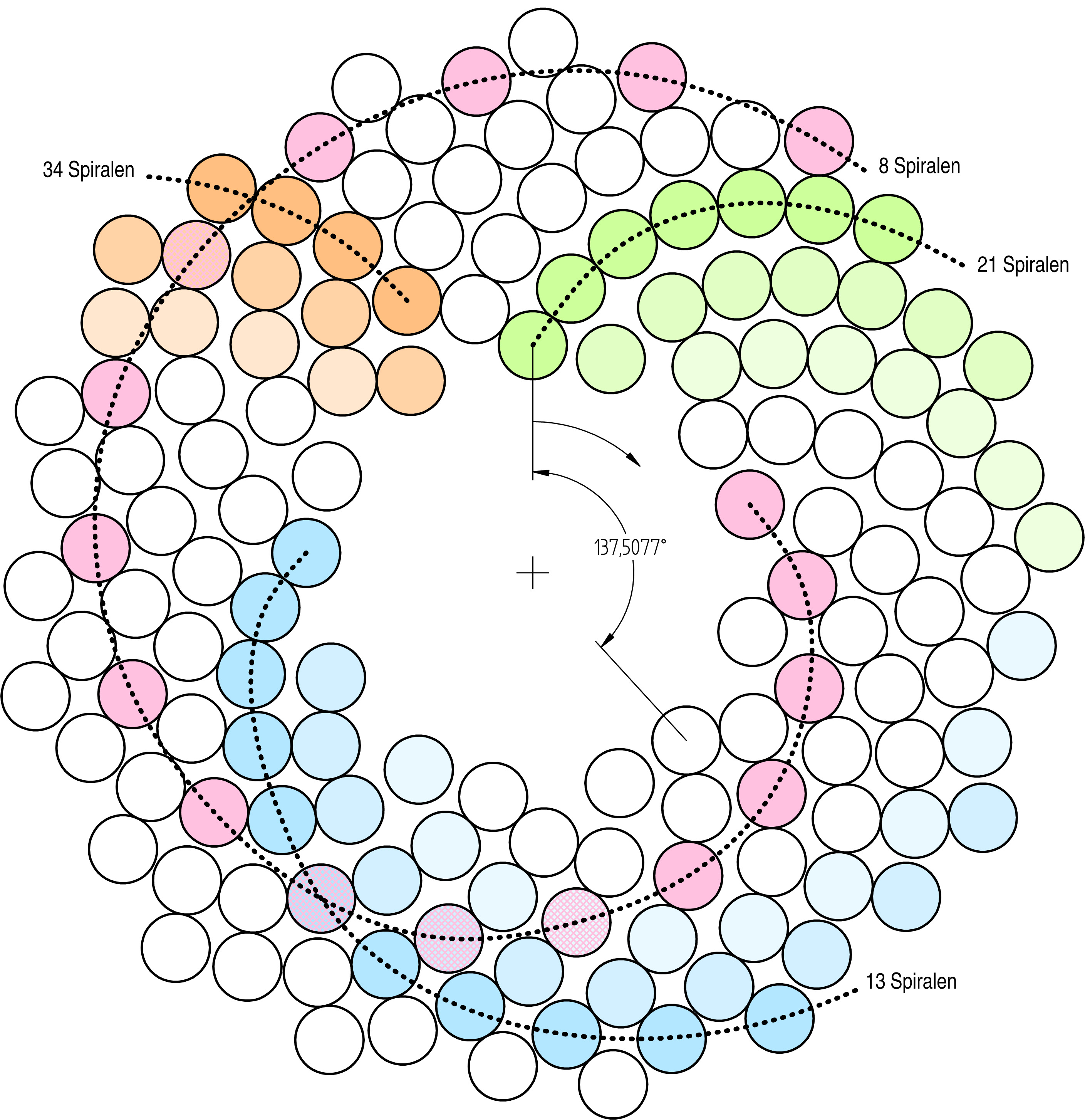 Arrangement of equal-sized circles at a distance of the golden angle Ψ ≈ 137.5077° with colored Fibonacci spirals